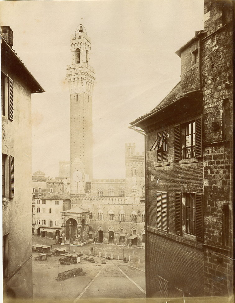 Paolo Lombardi (1827-1890), "Siena. Piazza del Campo square".